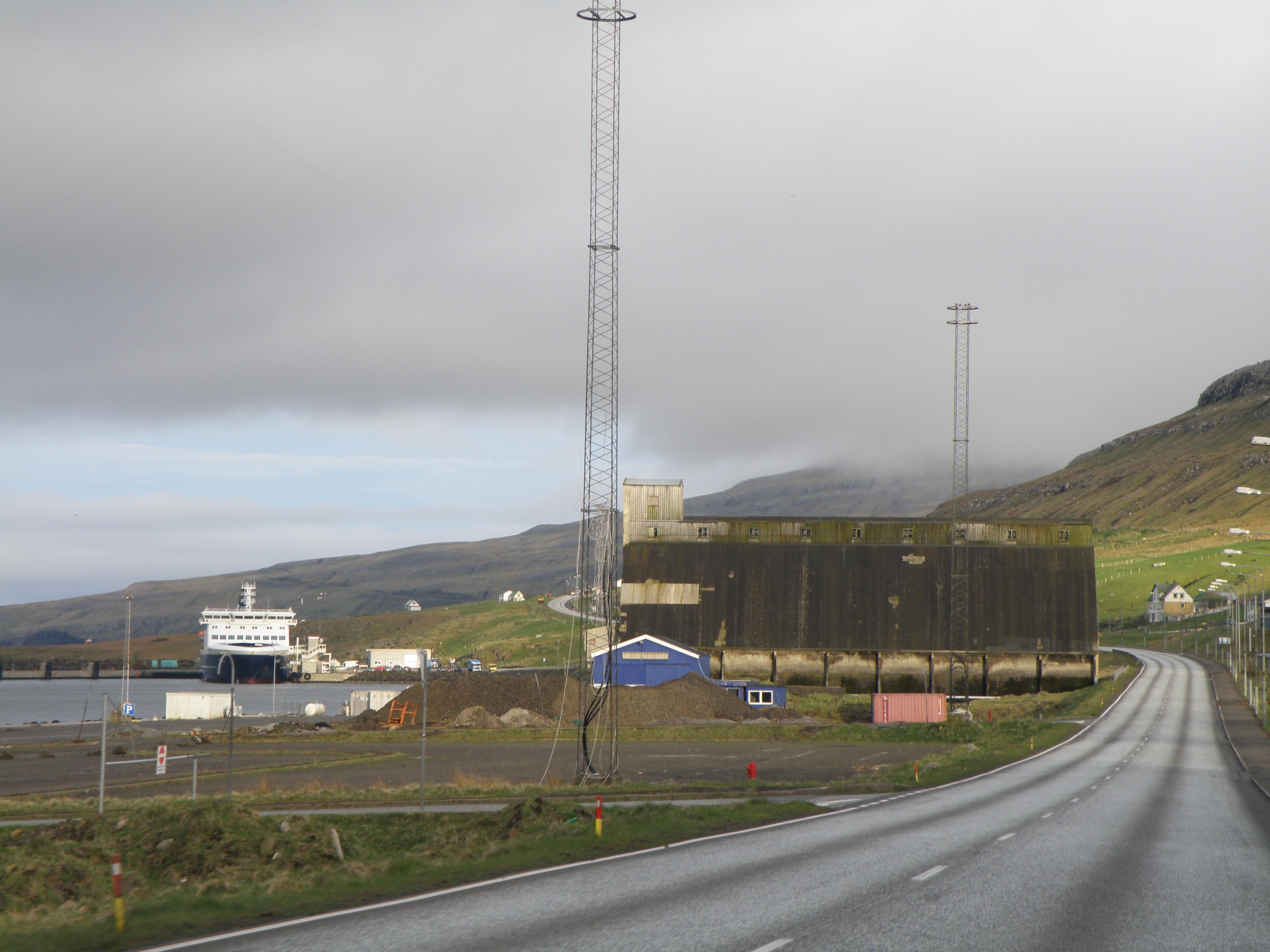 Øravíkarlíð is a settlement on the island Suðuroy, Faroe Islands, between Øravík and Trongisvágur. The Krambatangi ferryport is located there.